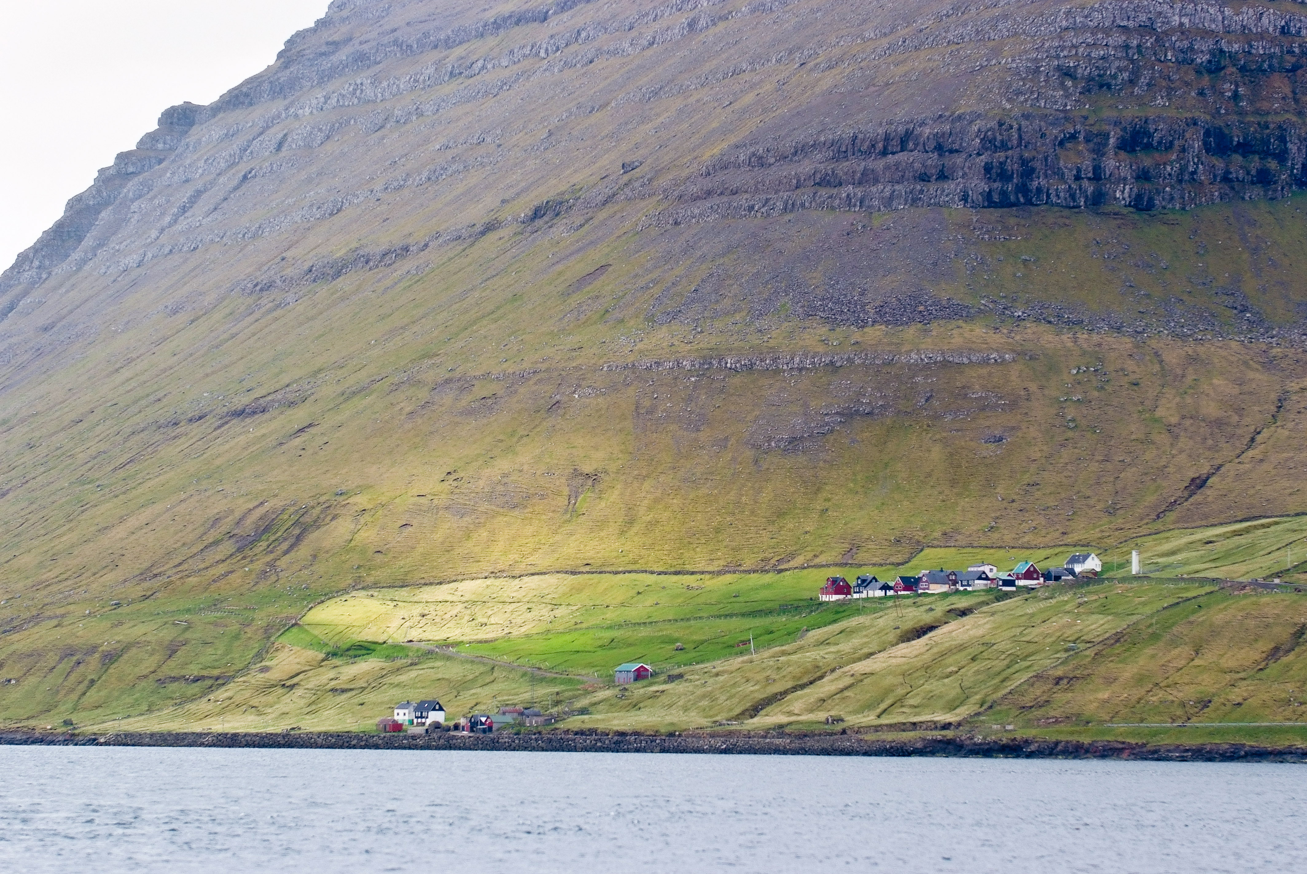 Syðradalur (Kalsoy), Faroe Islands